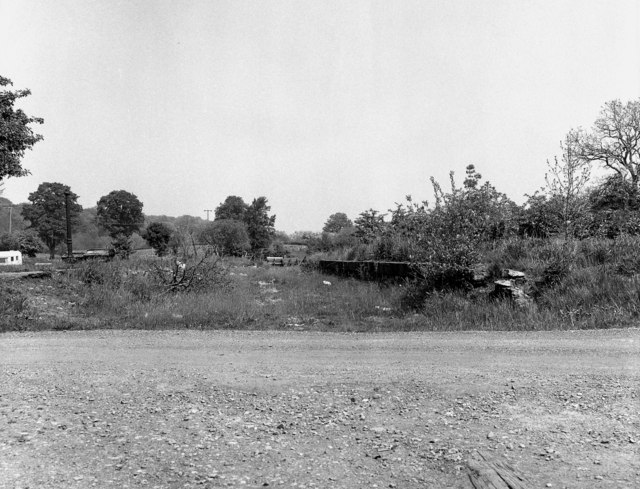 Site of Thornton-in-Craven station This station was on the Midland Railway line from Skipton to Colne. All the buildings were removed long since.